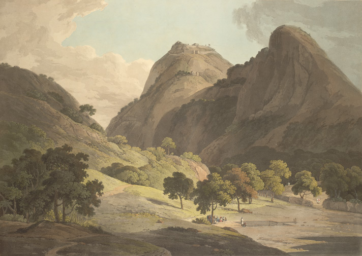 Artist and engraver: Daniell, Thomas (1749-1840) Medium: Aquatint, coloured Date: 1802 Plate 11 from the third set of Thomas and William Daniell's 'Oriental Scenery.' The artists recorded, 'Jag Deo, and Warrangur, are two of the twelve Hill Forts, or Barramah'l, which were in the possession of the late Sultaun Tippoo; these are of the lesser class, but, like most of the hill forts, are strongly fortified quite to their rocky summits.' The hill fort rises above the village of Jagadevapalaiyam in two peaks, one Jagadevadrug, and the other, separated by a saddle, Kevalgadai (Cowel Gur). The Daniells are mistaken in calling the second peak Warrungur. Jagadeva has some of the finest defensive fortifications of all the hill forts in the Baramahal, with ramparts more than 30 feet high rising above a steep rock glacis, while the remains of the old town around its foot testify to its once being much more important.